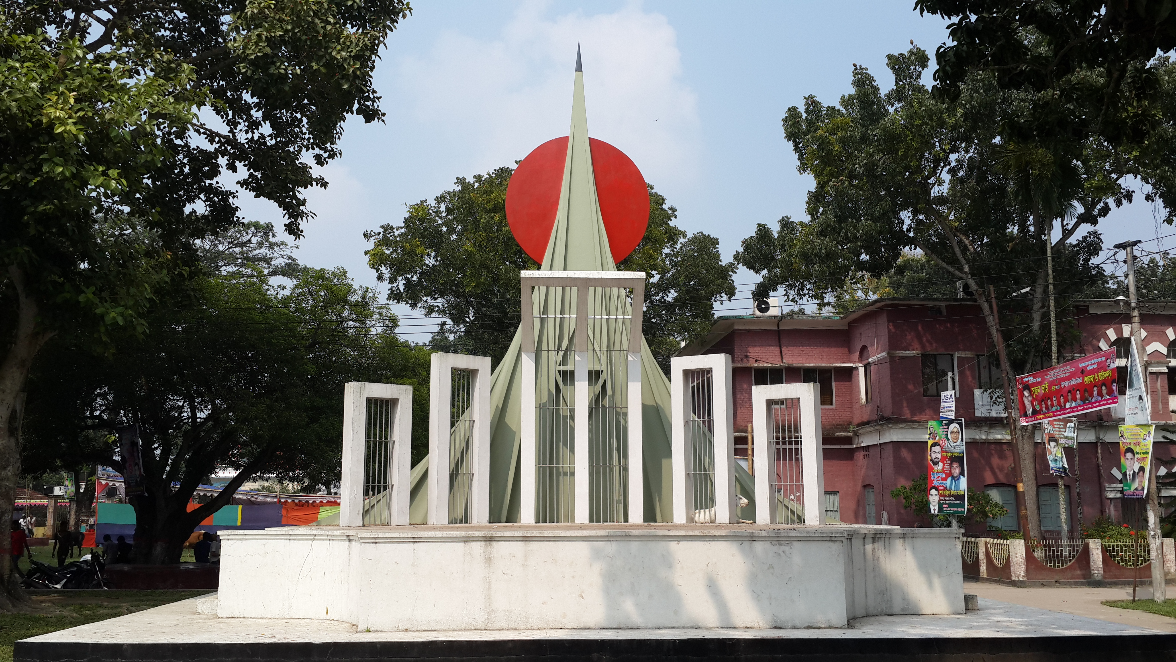 Independence and Language Movement memorial monument.